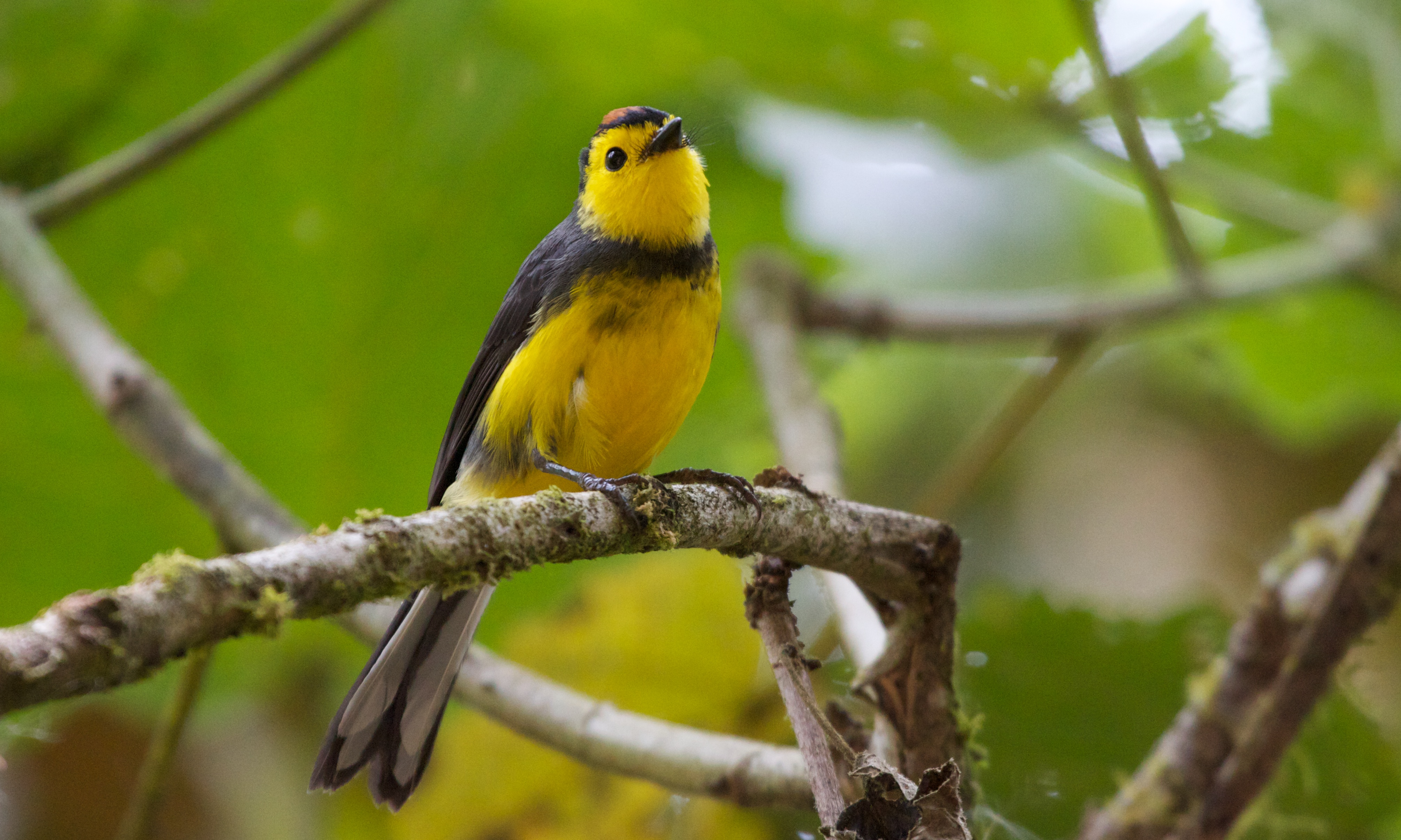 A Collared Whitestart in Costa Rica.